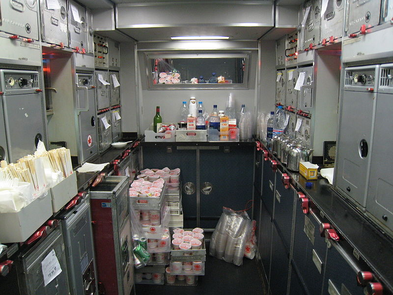 Air_Canada_AirbusA340_Kitchen